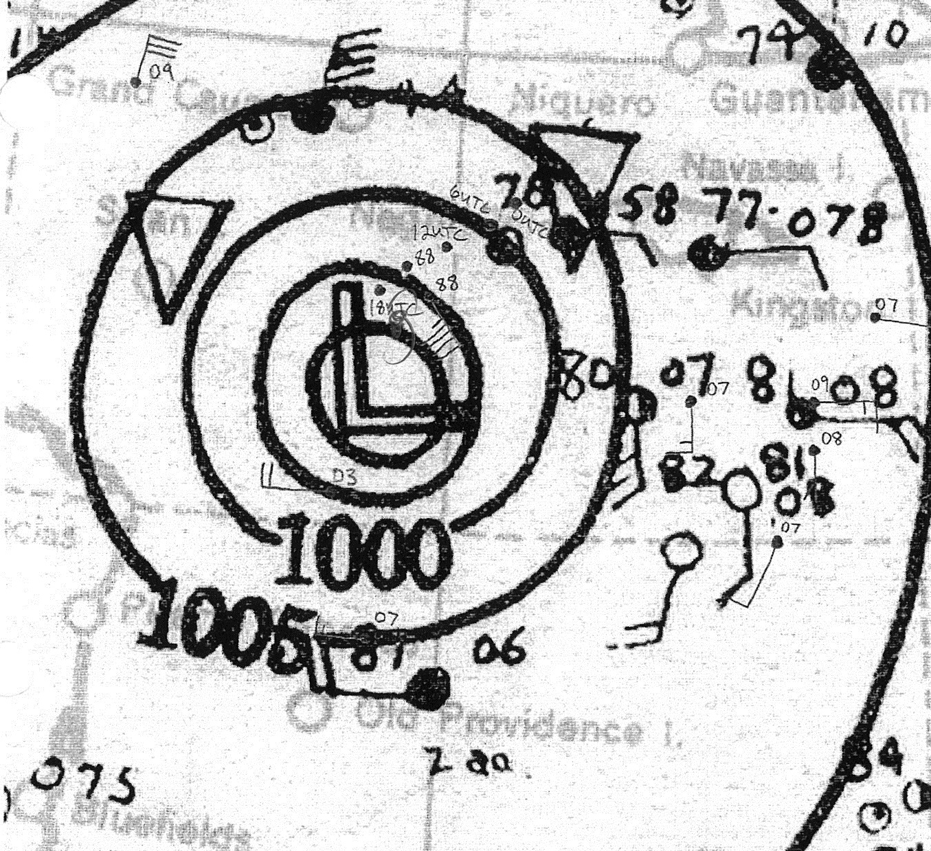 Weather map oSurface w Hurricane 6 of the 1935 Atlantic hurricane season on October 24, 1935. The storm is centered over the western Caribbean Sea, with Honduras in the lower-left of the frame.